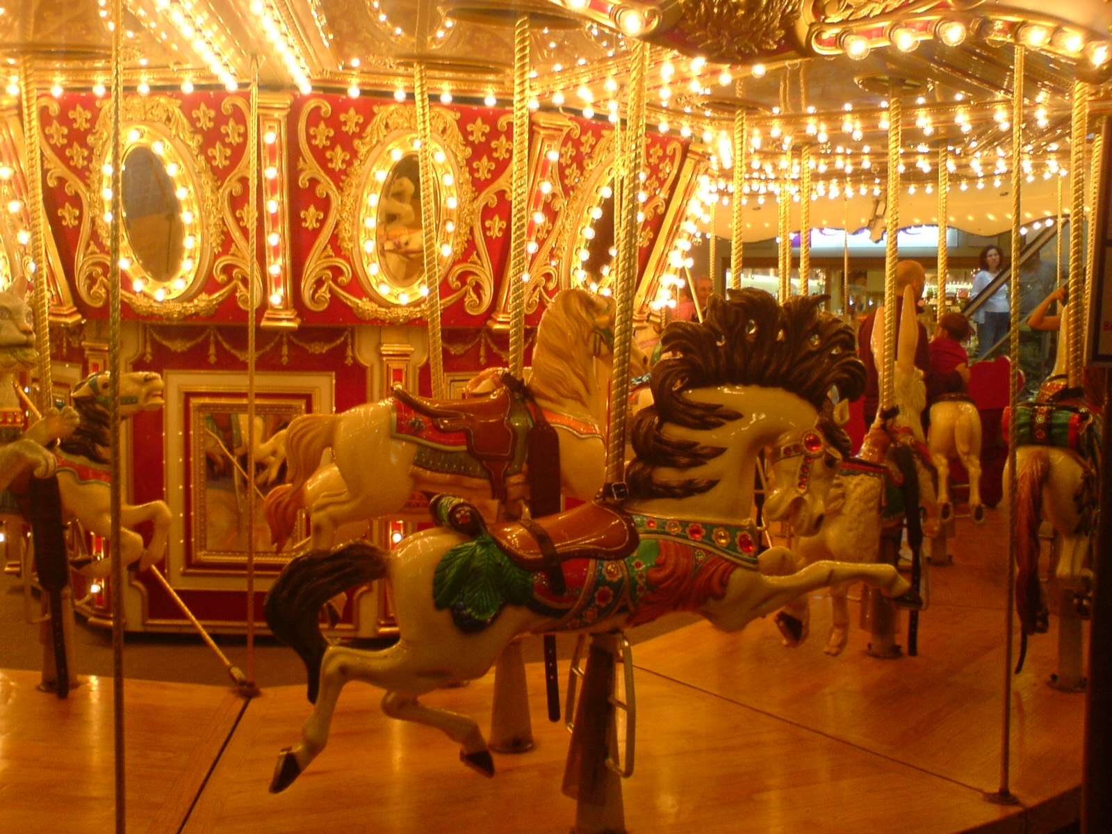 A Carousel from İstanbul Turkey